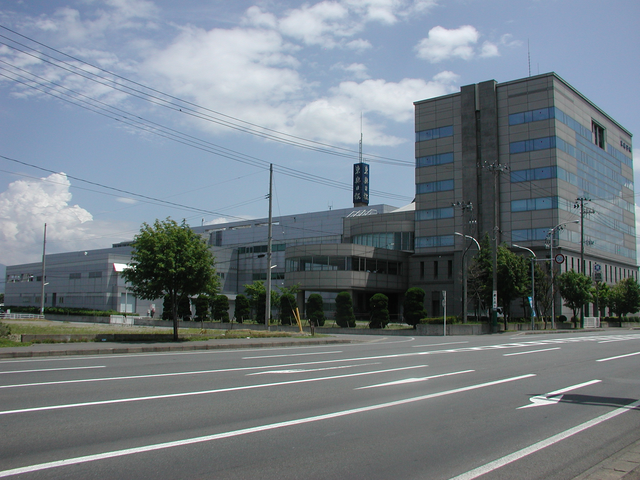 The To-o Nippo Press Co.,ltd. Head Office